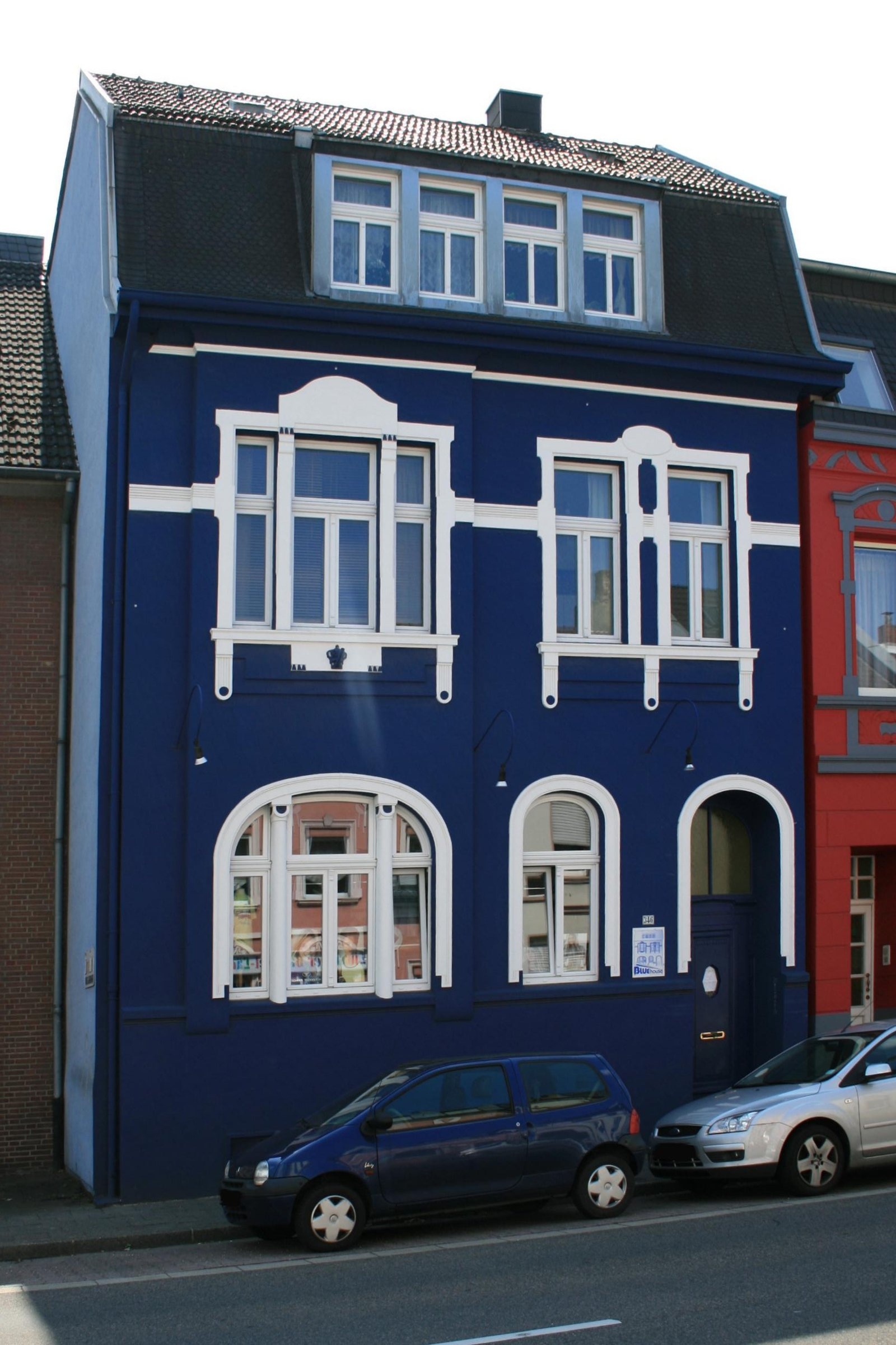 Cultural heritage monument No. N 001 in Mönchengladbach